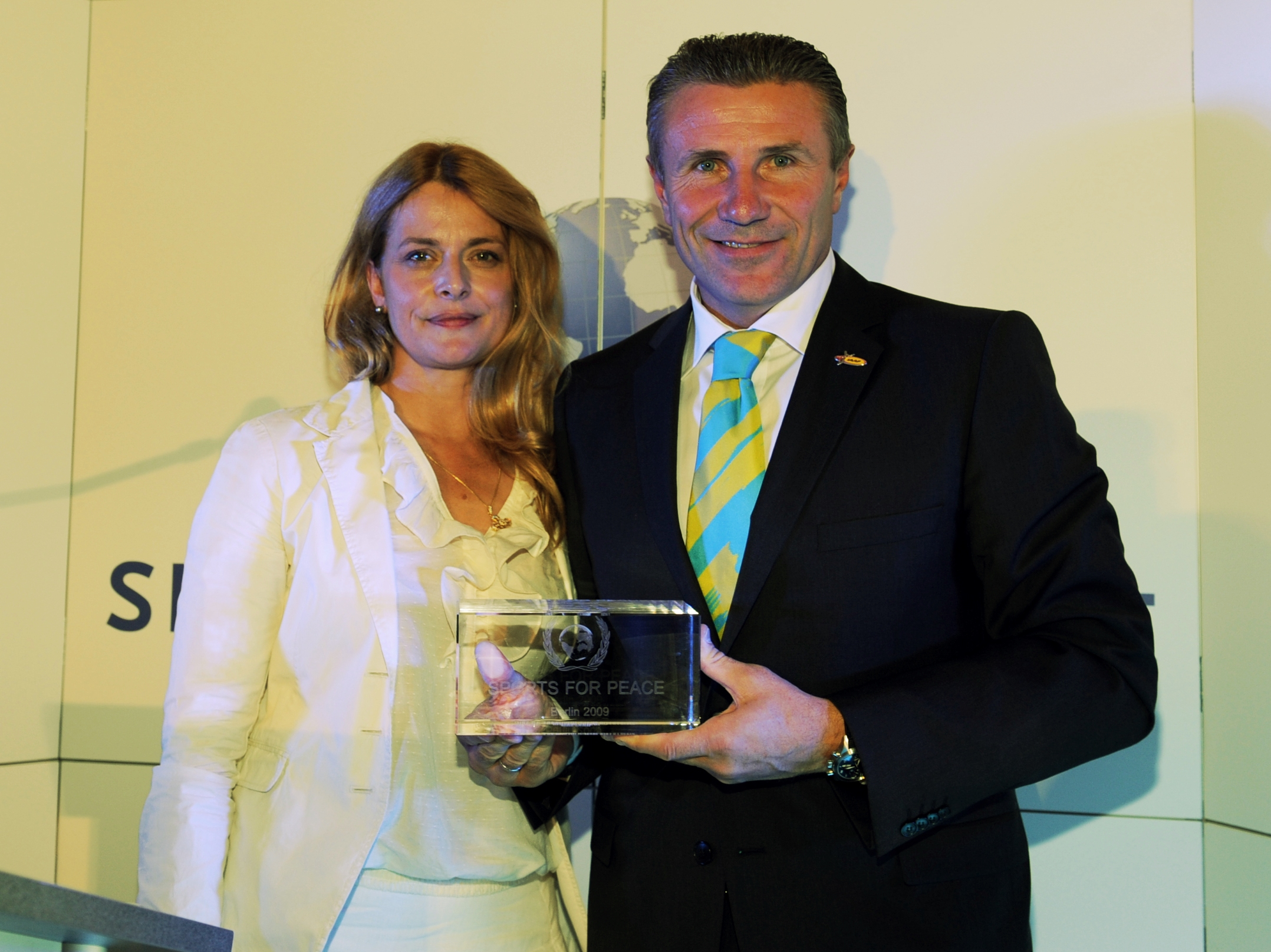 Nastassja Kinski and Sergej Bubka